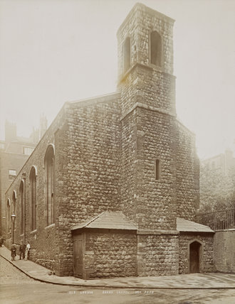 Photograph of the Savoy Chapel next to the Savoy Hotel off the Strand. It served the parish of St-Mary-le-Savoy in London. It was the principal chapel for the German Lutheran community in London during the Hanoverian period.